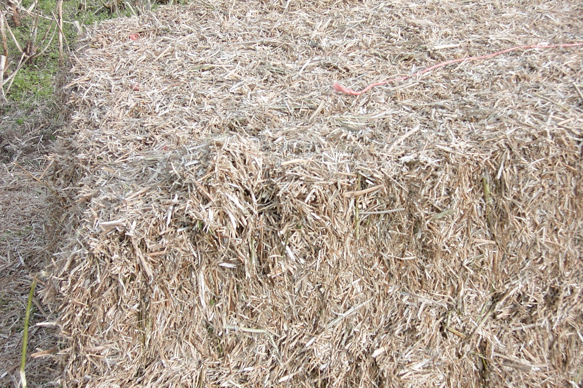 Straw bale of oilseed rape.